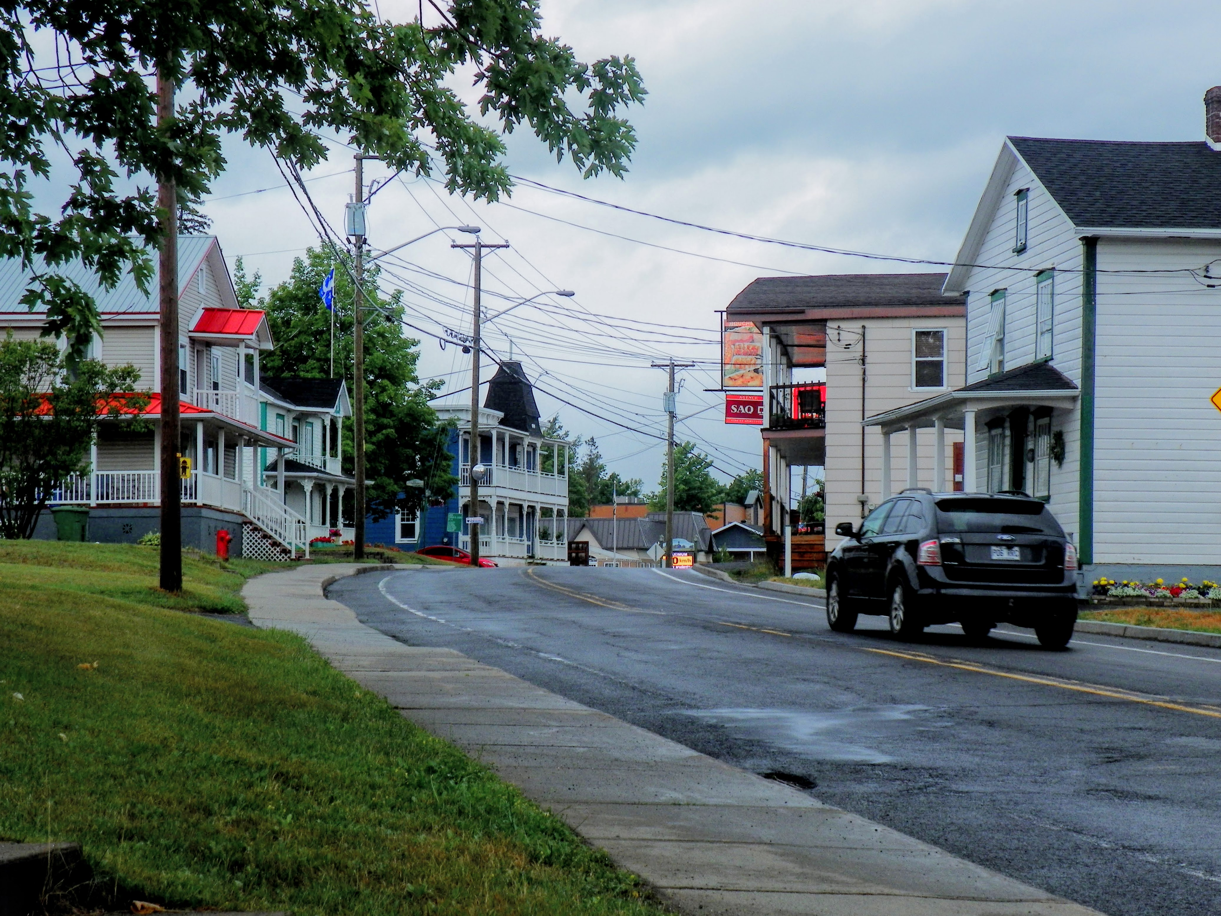 Principale street (main street, concurrent with route 218 and 269) in Saint-Gilles, Québec